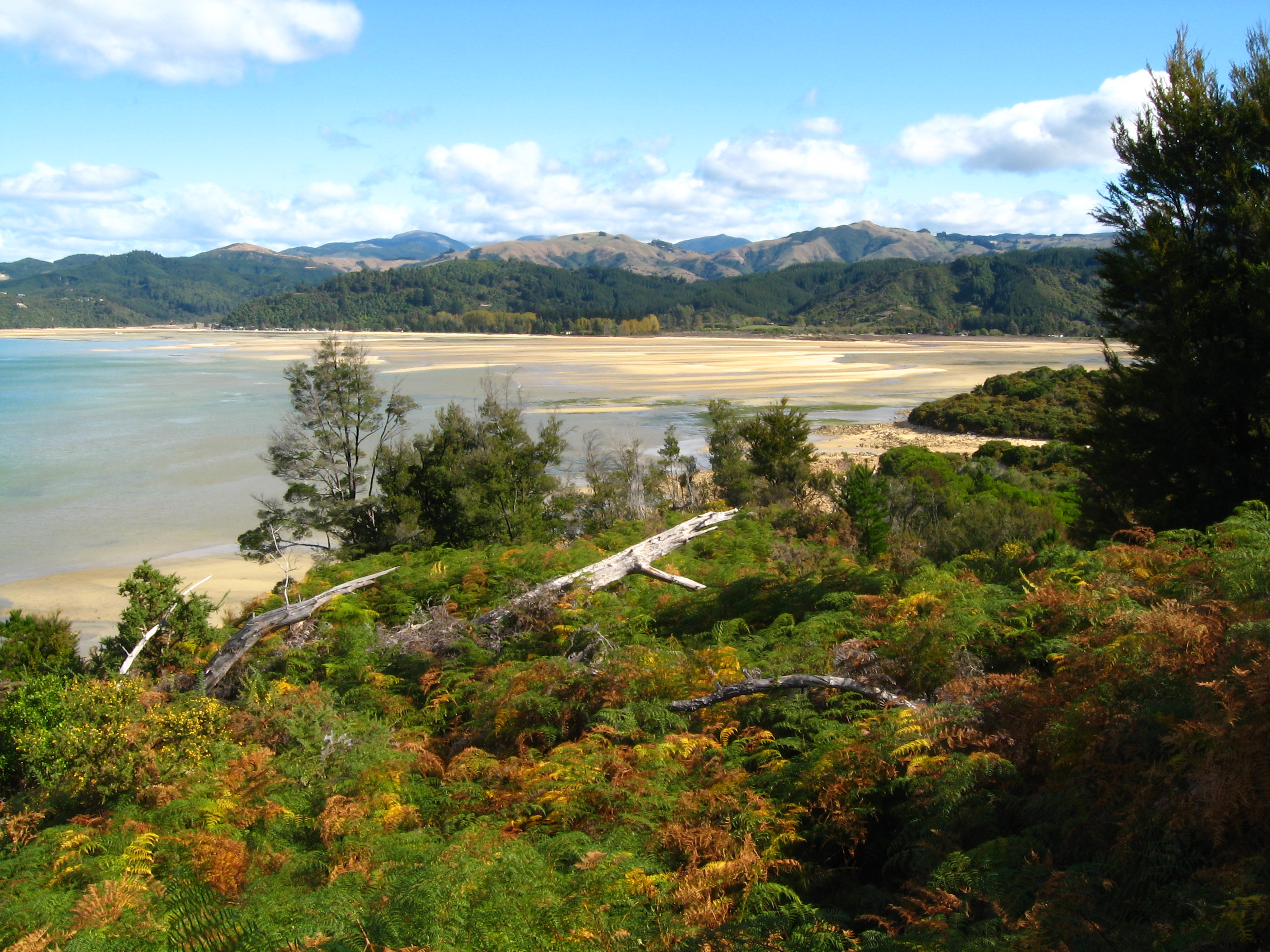 Abel Tasman National Park, New Zealand. Looking across Sandy Bay to Marahau.